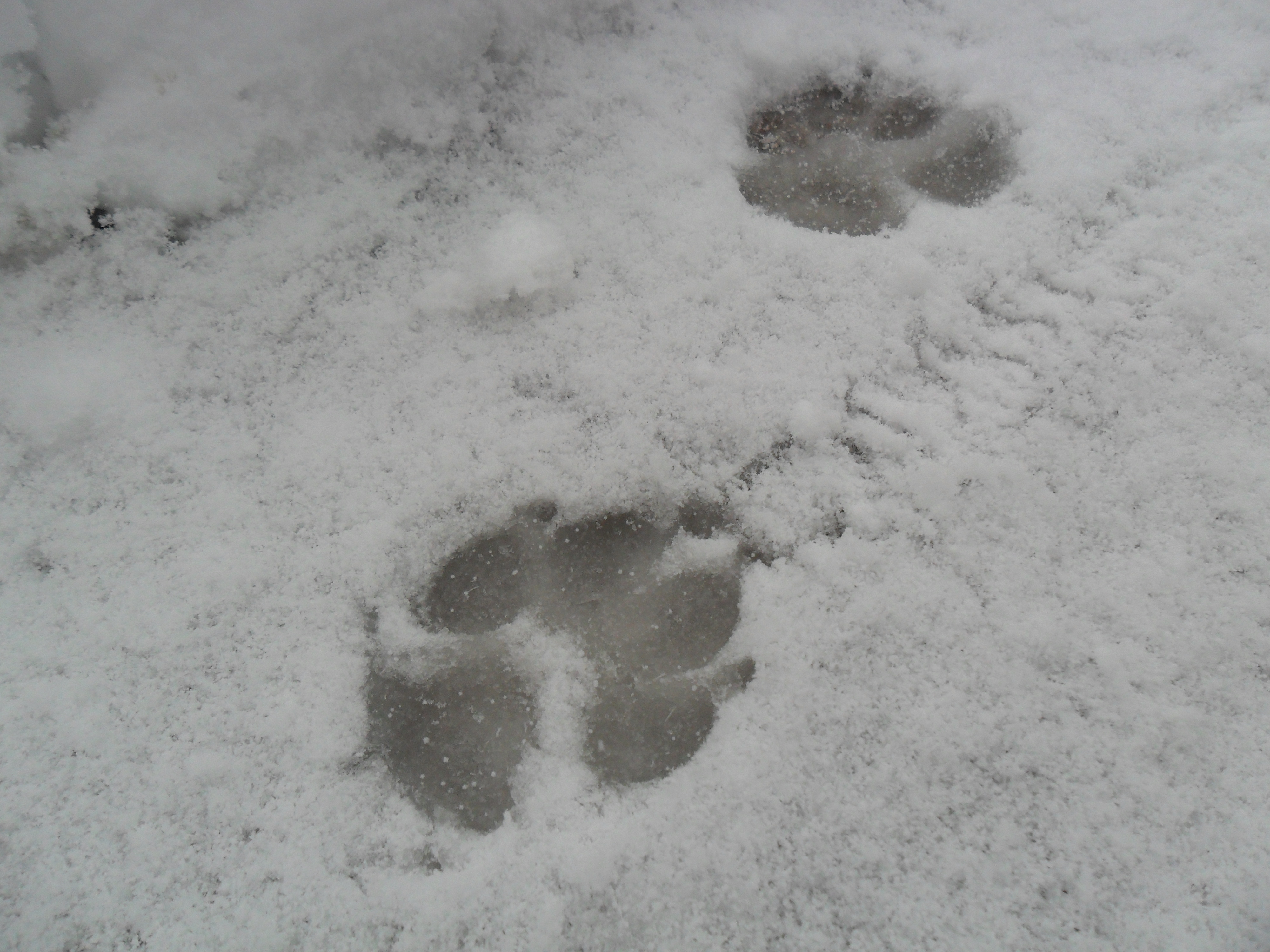 Footprints of a carnivore in fresh snow, likely canine